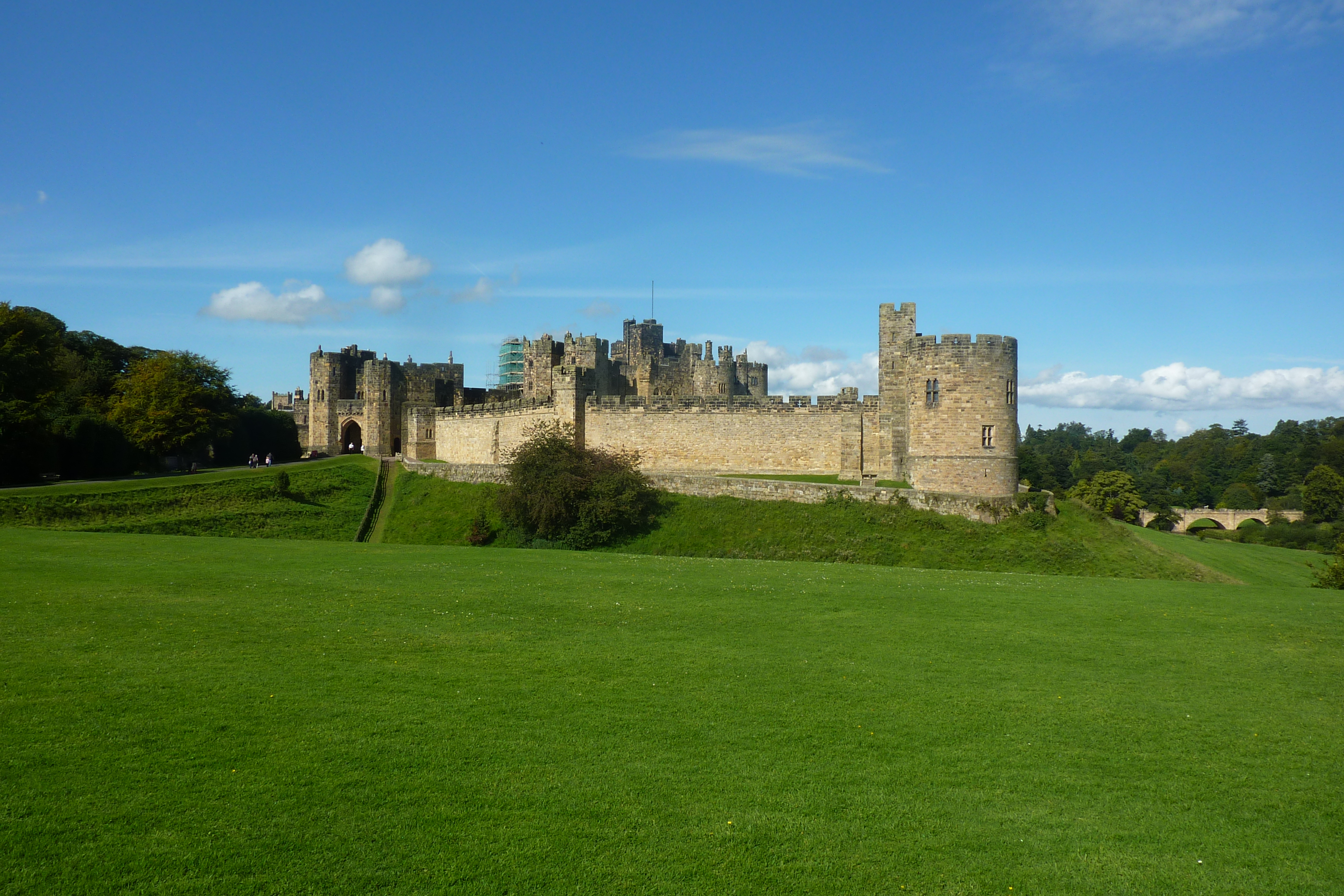 Alnwick Castle in Alnwick, Northumberland, England.